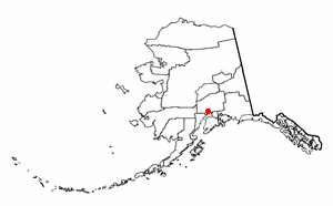 Adapted from Wikipedia's AK borough maps by Seth Ilys.